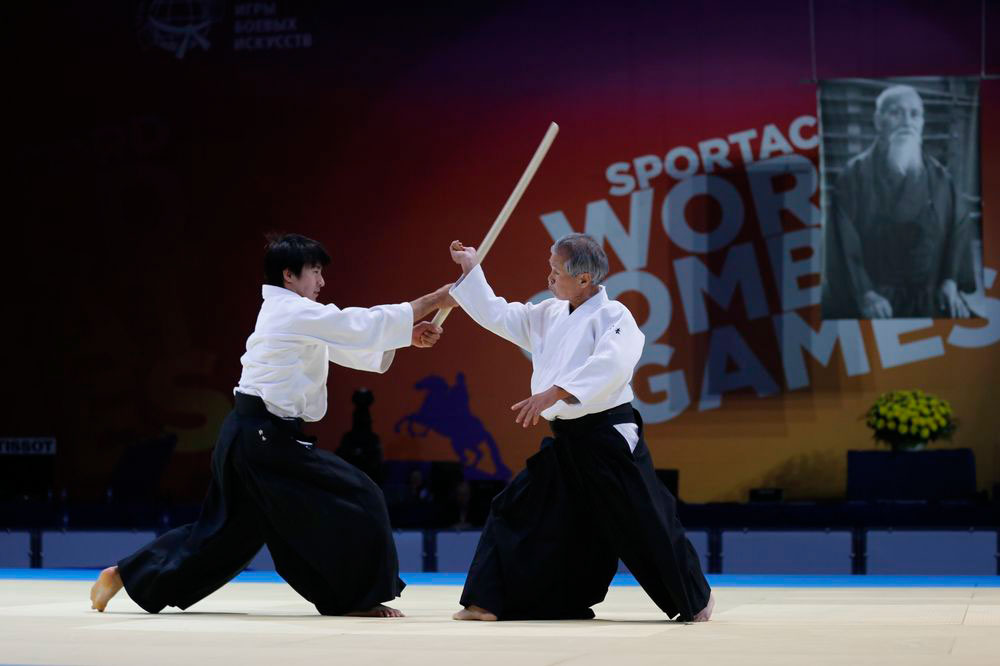 Miyamoto Tsuruzo Sensei about to move past a bokken attack